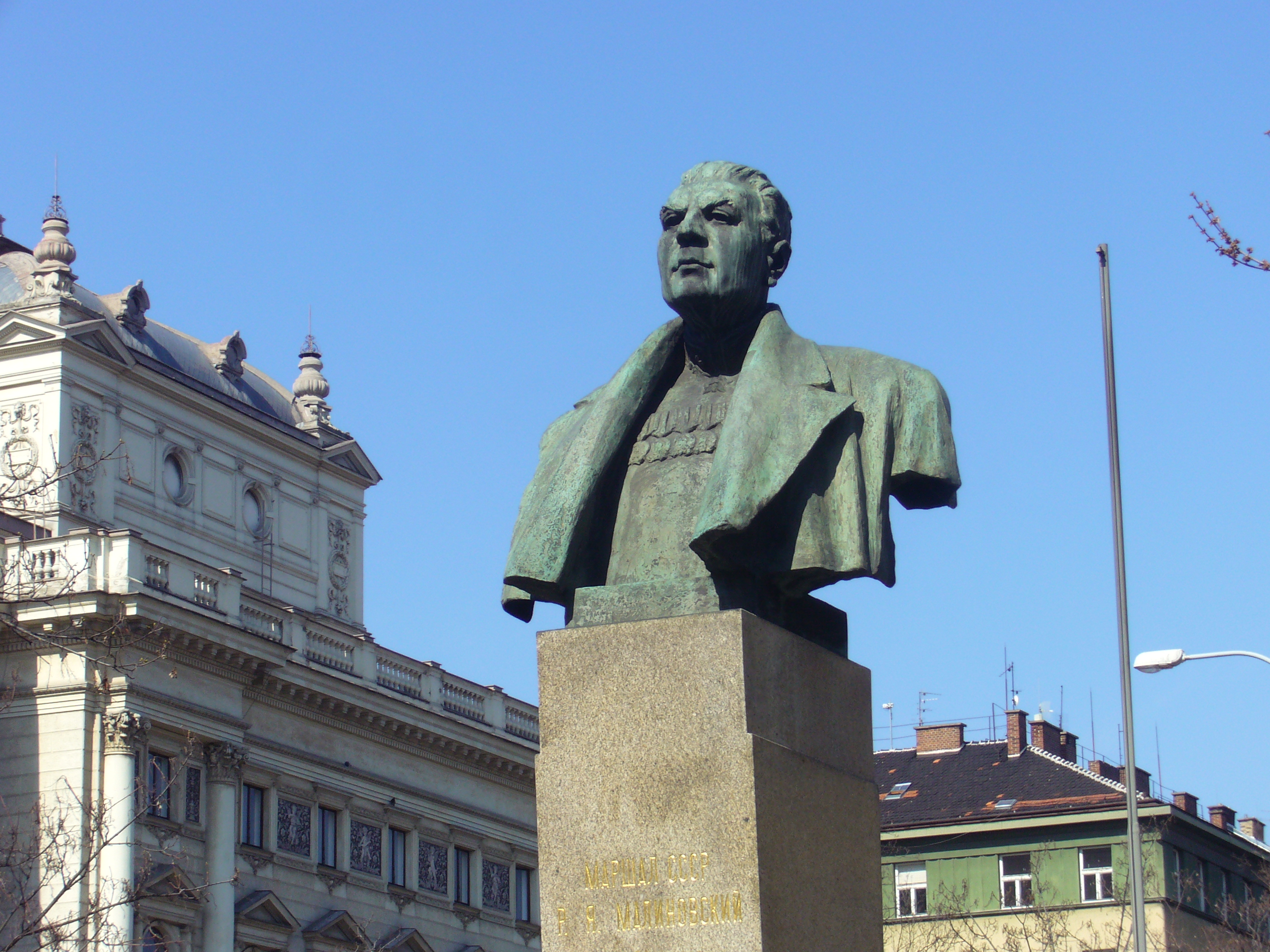 Bust of marshal Rodion Malinovki by Vincenc Makovský in Brno